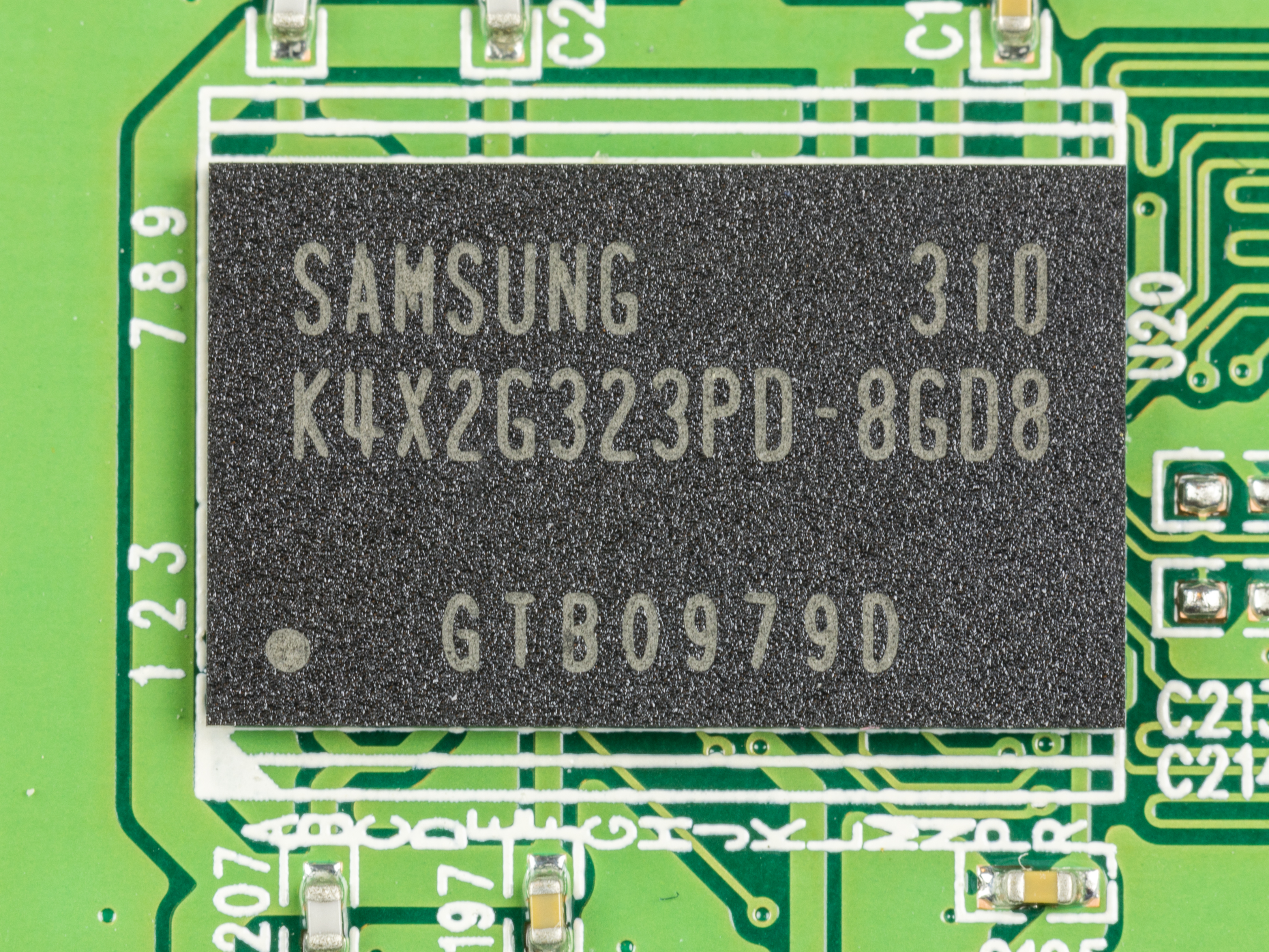 Tolino shine - controller board - Samsung K4X2G323PD-8GD8 - 2Gb MDDR, 90-FBGA, 800MHz